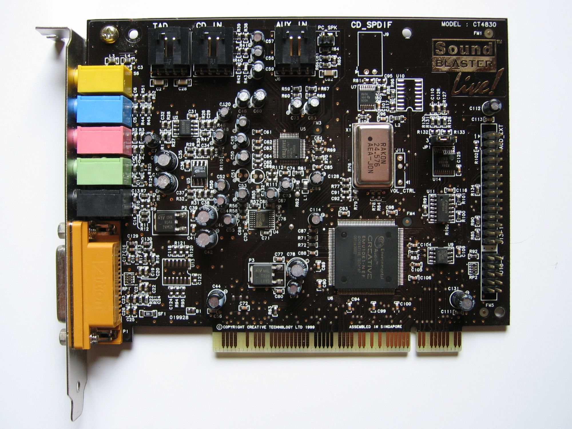 Soundblaster Live! Player 1024 (CT4830)